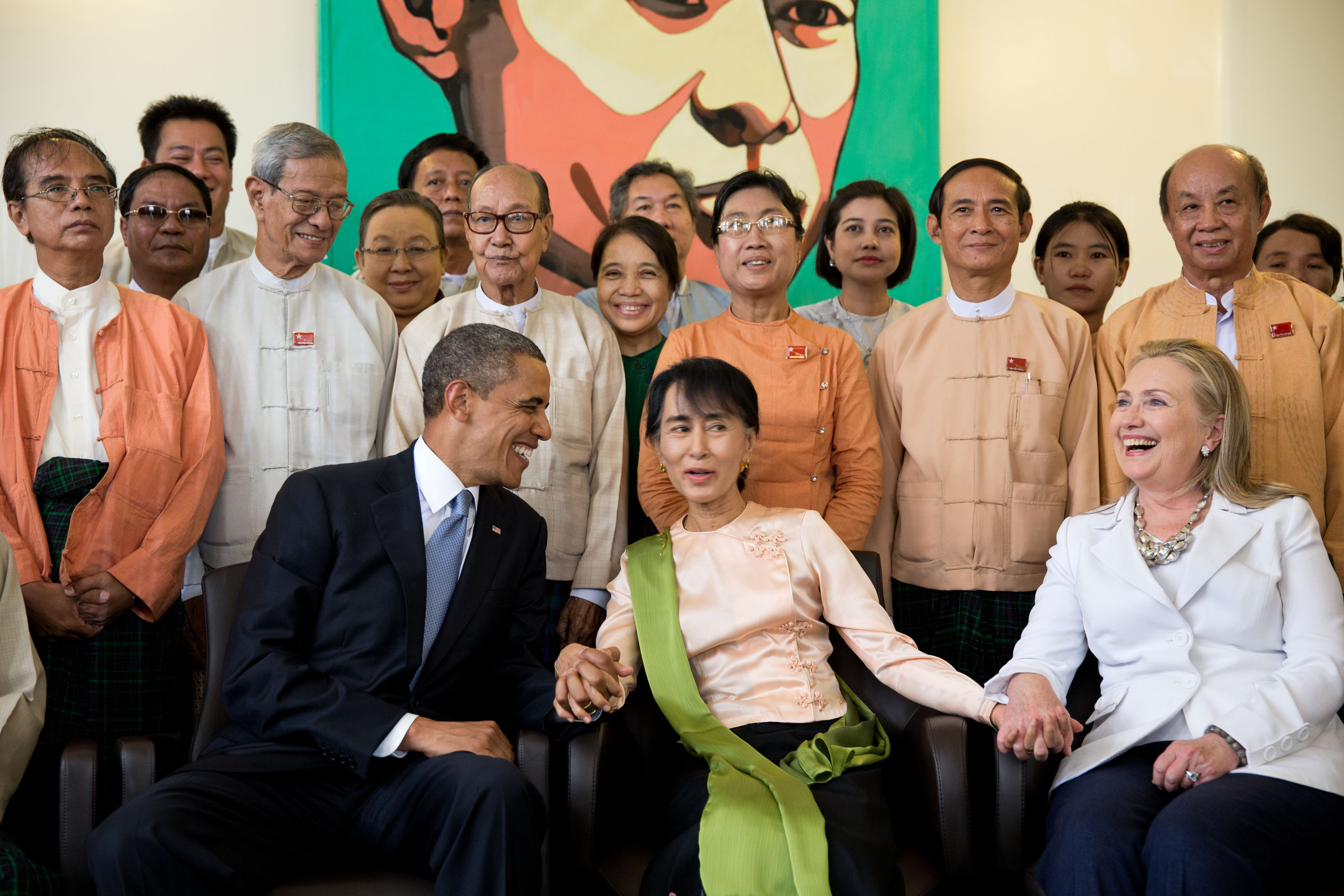 United States President Barack Obama and Secretary of State Hillary Clinton with Aung San Suu Kyi and her staff at her home in Rangoon on 19 November 2012.